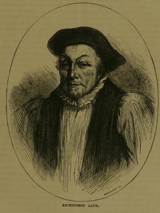 Illustration related to the history of the United States